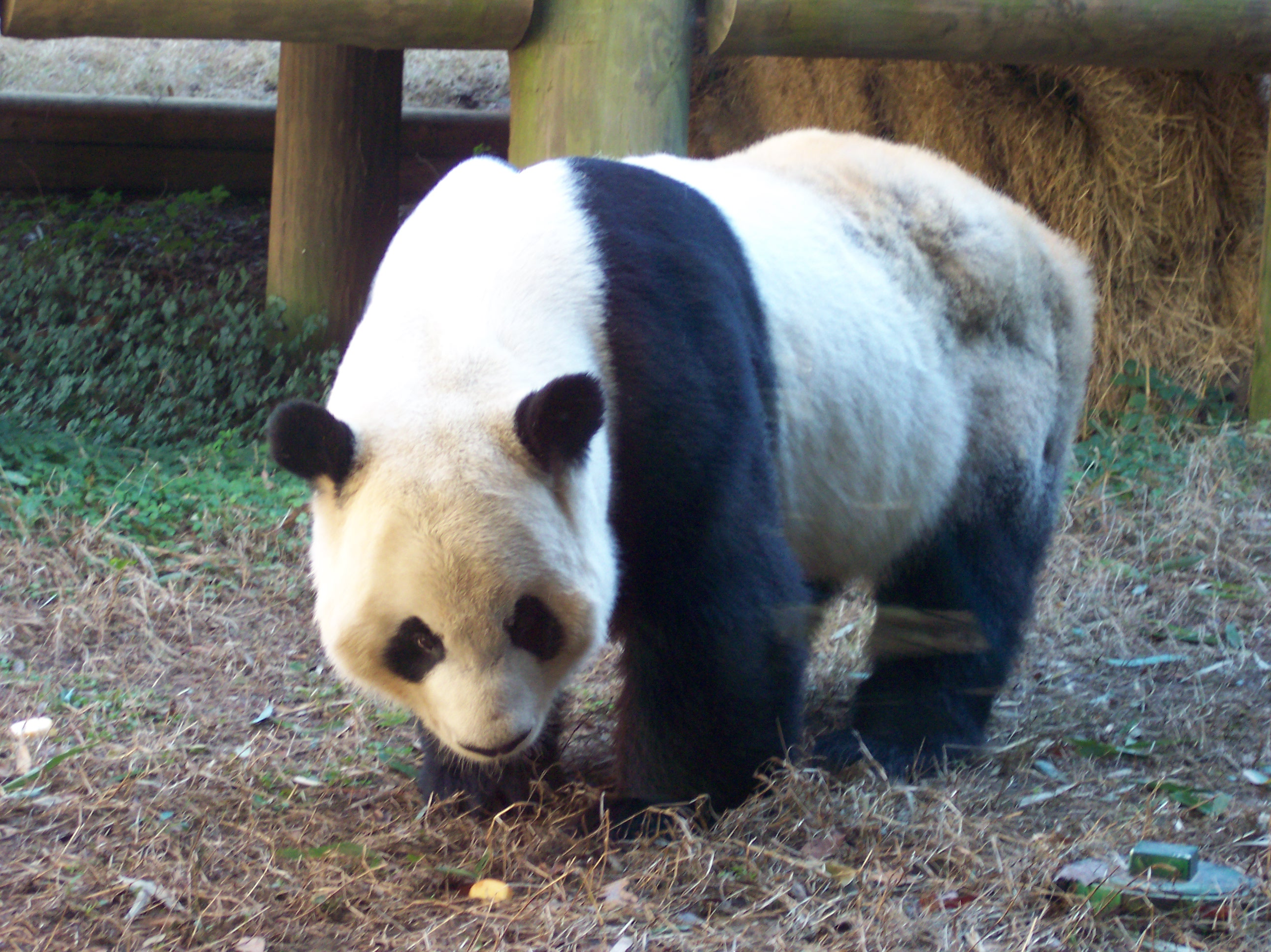 Yang Yang in one of the outdoor yards at Zoo Atlanta